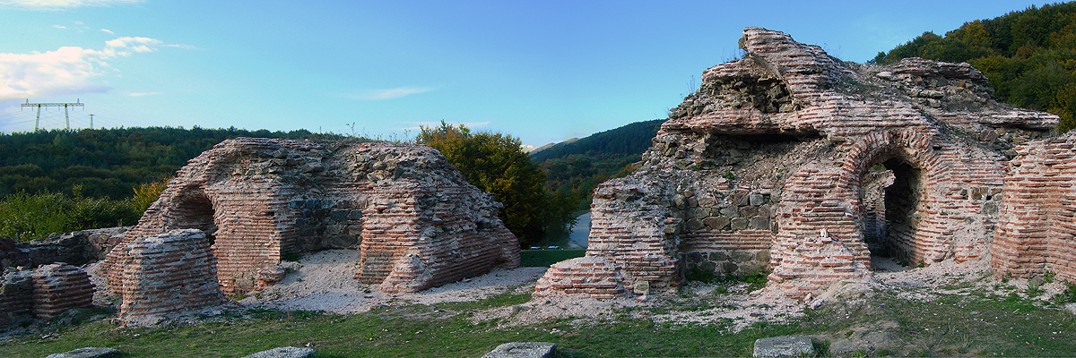 Ruins of the antique Gate of Trajan fortress